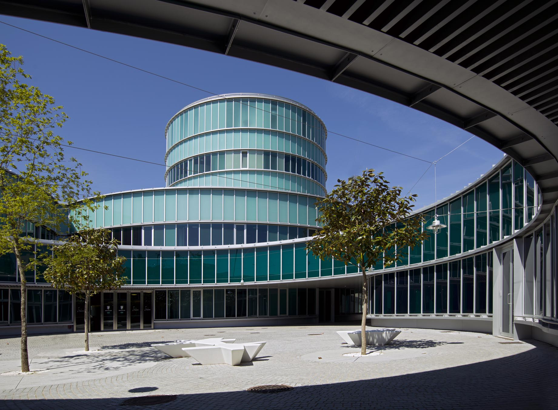 Lalín Town Hall by Mansilla+Tuñón, picture taken from the patio.